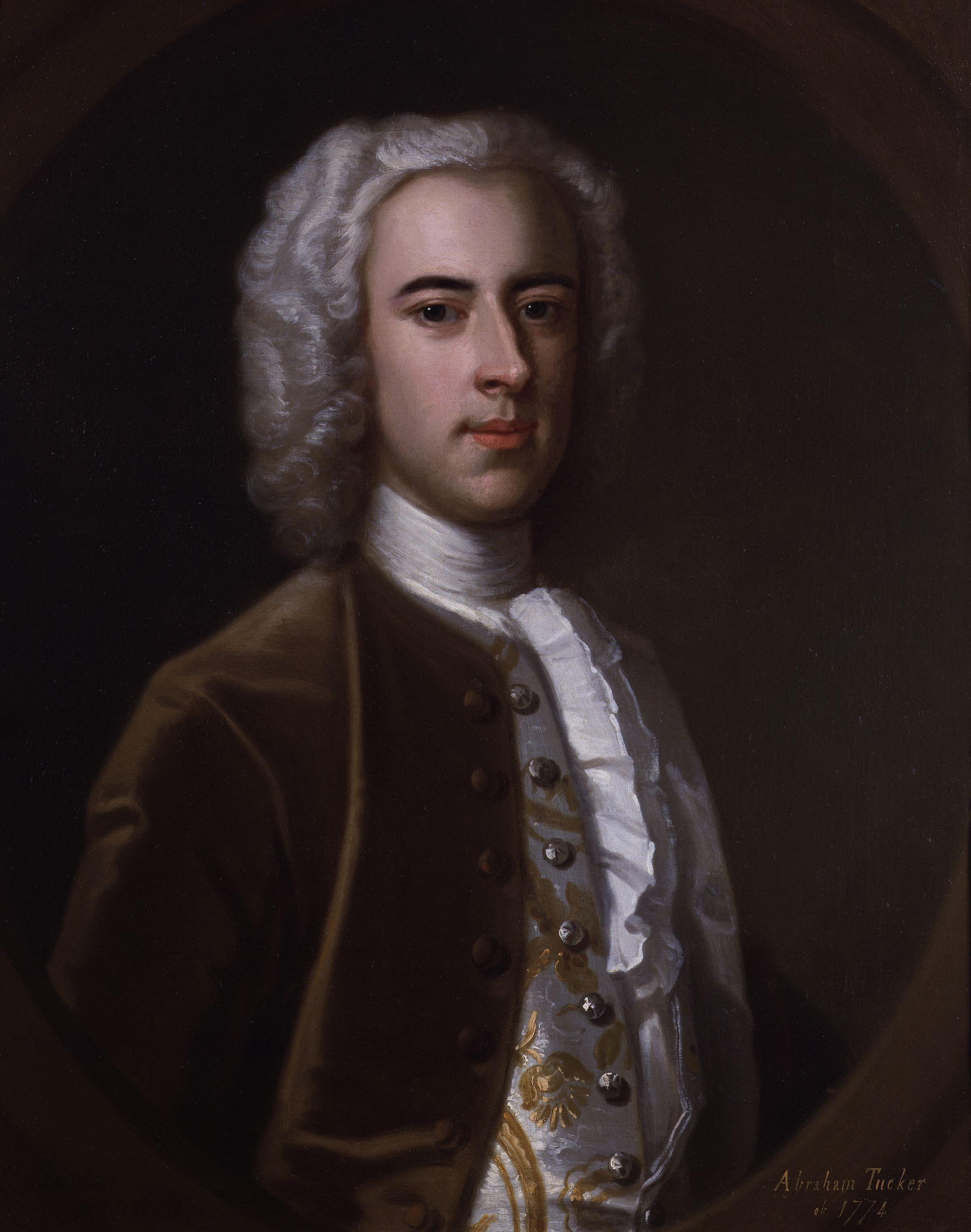 Abraham Tucker, painting by Enoch Seeman (died 1744). All images in this batch have been confirmed as author died before 1939 according to the official death date listed by the NPG.